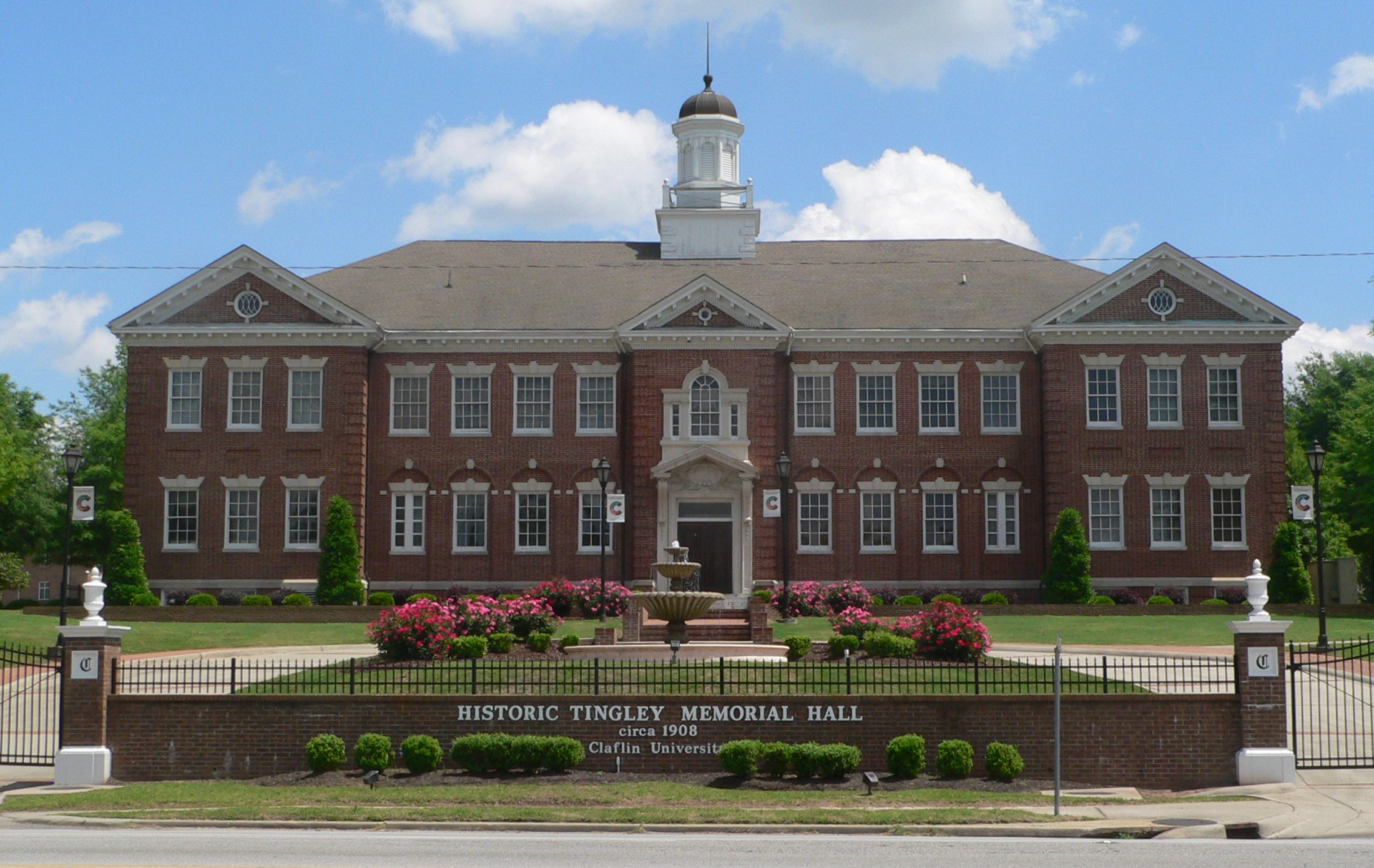 Tingley Hall, on campus of Claflin University in Orangeburg, South Carolina; seen from the north-northwest.